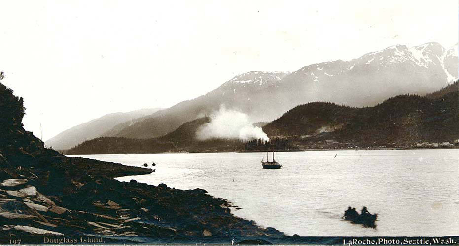 Caption on image: "Douglass Island" Subjects (LCTGM): Islands--Alaska Subjects (LCSH): Douglas Island (Alaska)